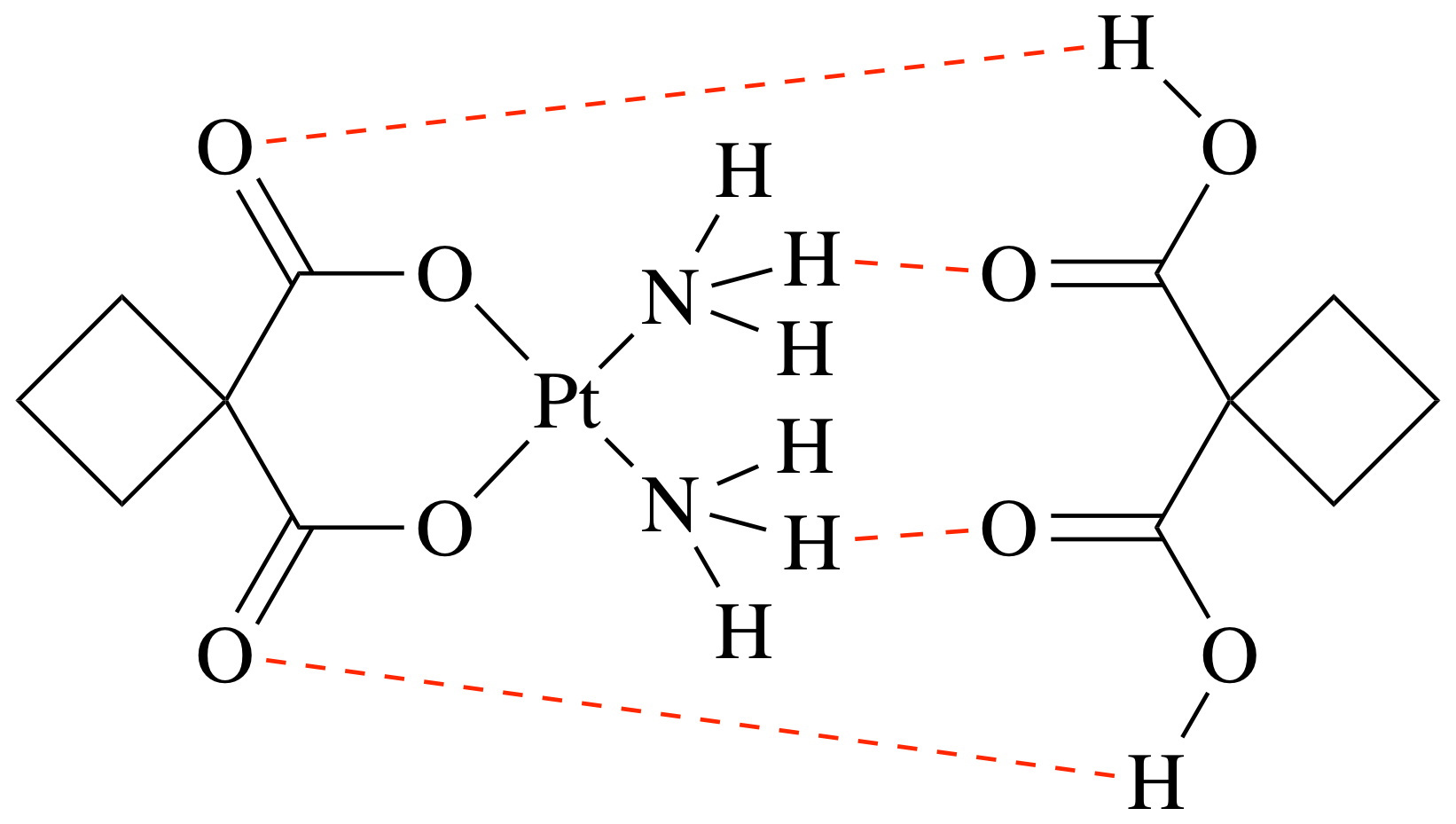 Dicycloplatin, showing hydrogen bonding